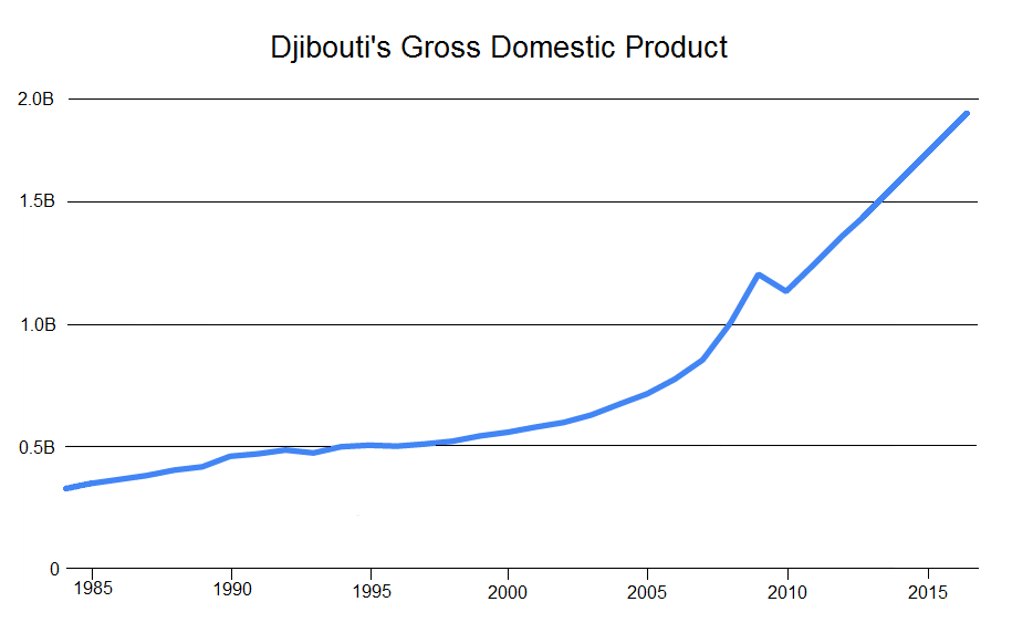 Djibouti's gross domestic product expanded by an average of more than 6 percent per year, from US$341 million in 1985 to US$1.5 billion in 2015.